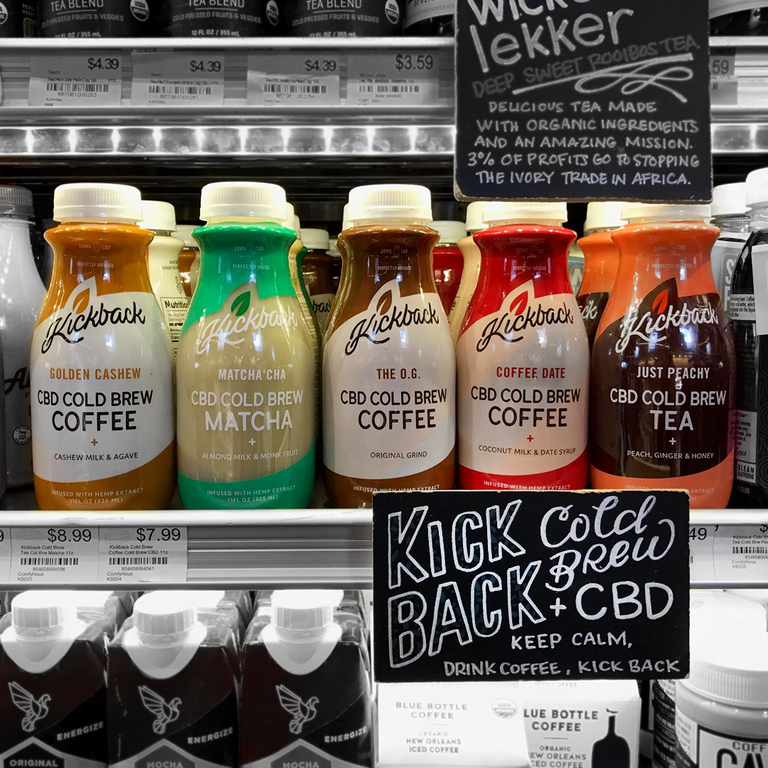 This photo depicts another use of CBD in the beverage form. Consumers can get their CBD from drinking Kickback Cold Brew. All 5 of their flavors are shown here.